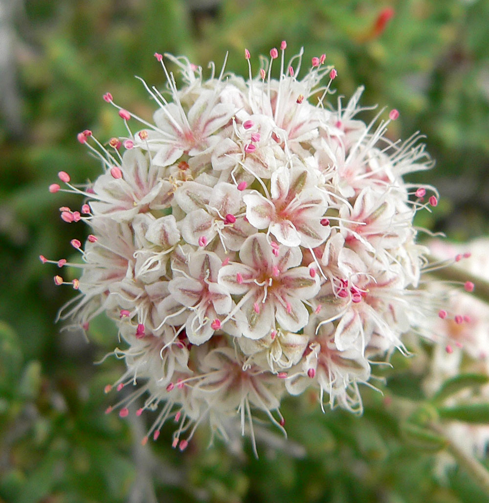 Photo of Eriogonum fasciculatum in the desert at the west end of Cheyenne Ave, Las Vegas, Nevada (Lone Mountain area)